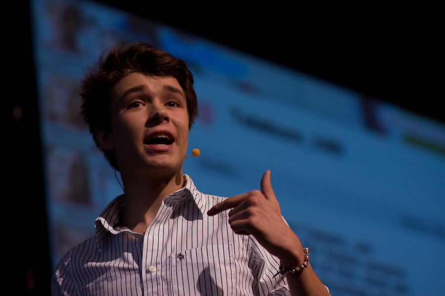 Philipp Riederle at "The World after Advertising" on 25th November 2010